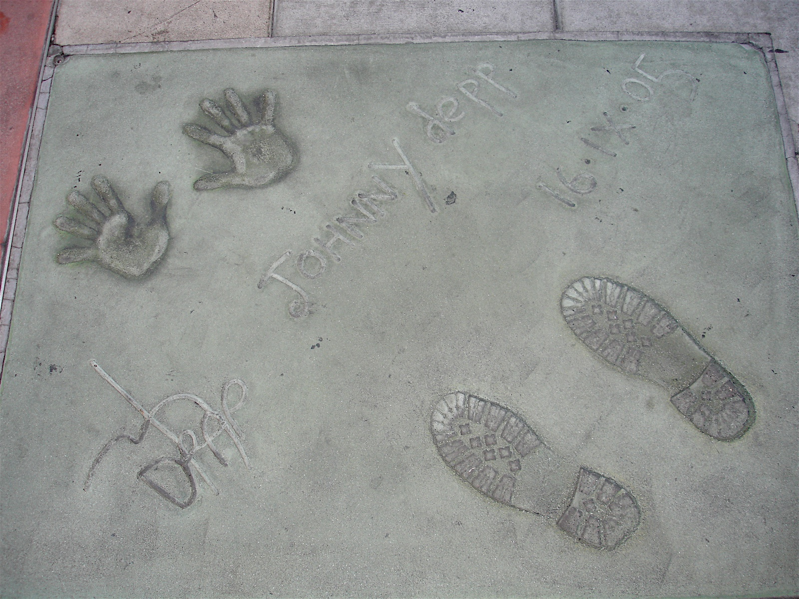 Johnny Depp Footprint